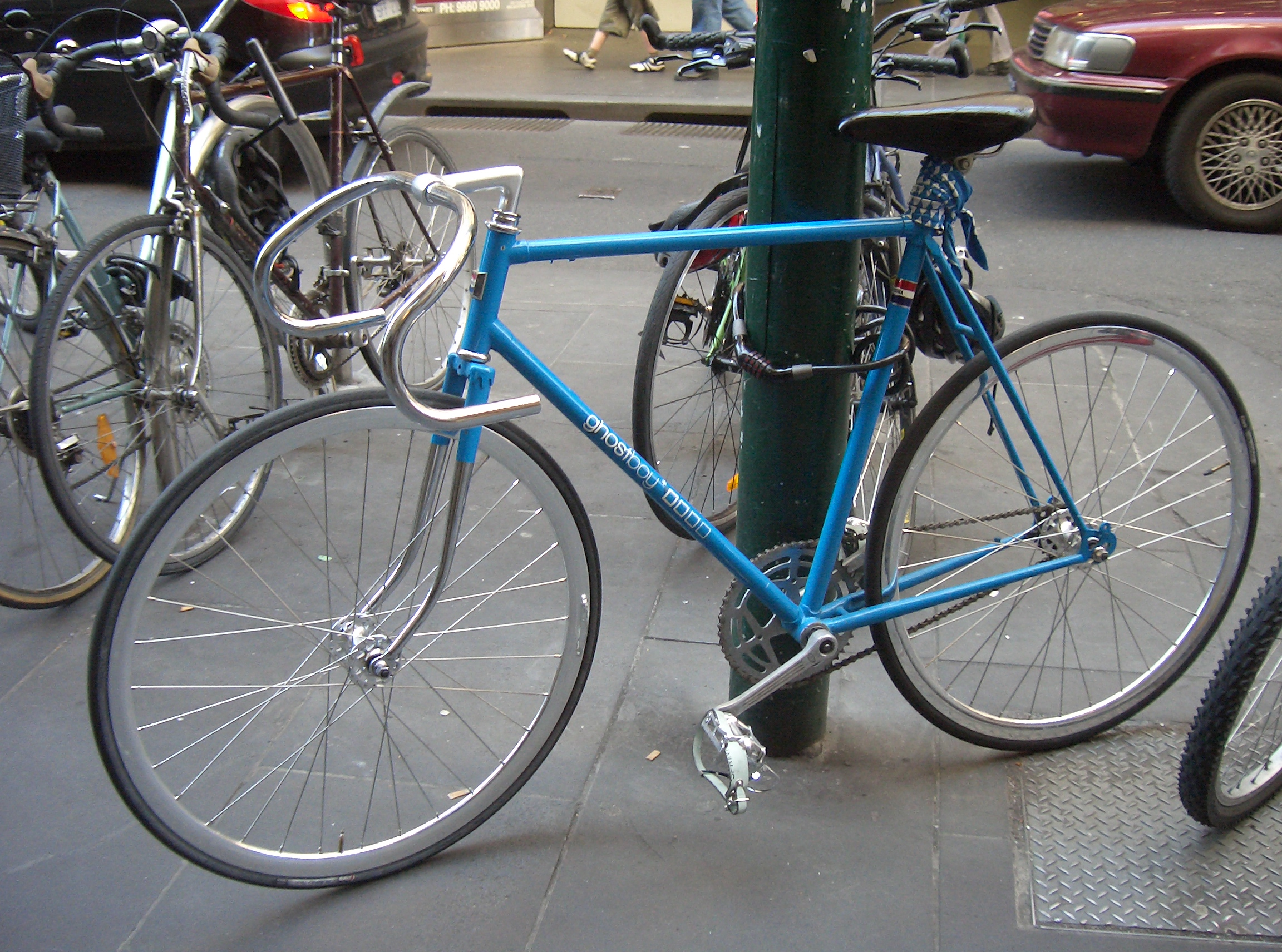 A blue fixed-gear or track bicycle seen in Flinders Lane, Melbourne, Australia.